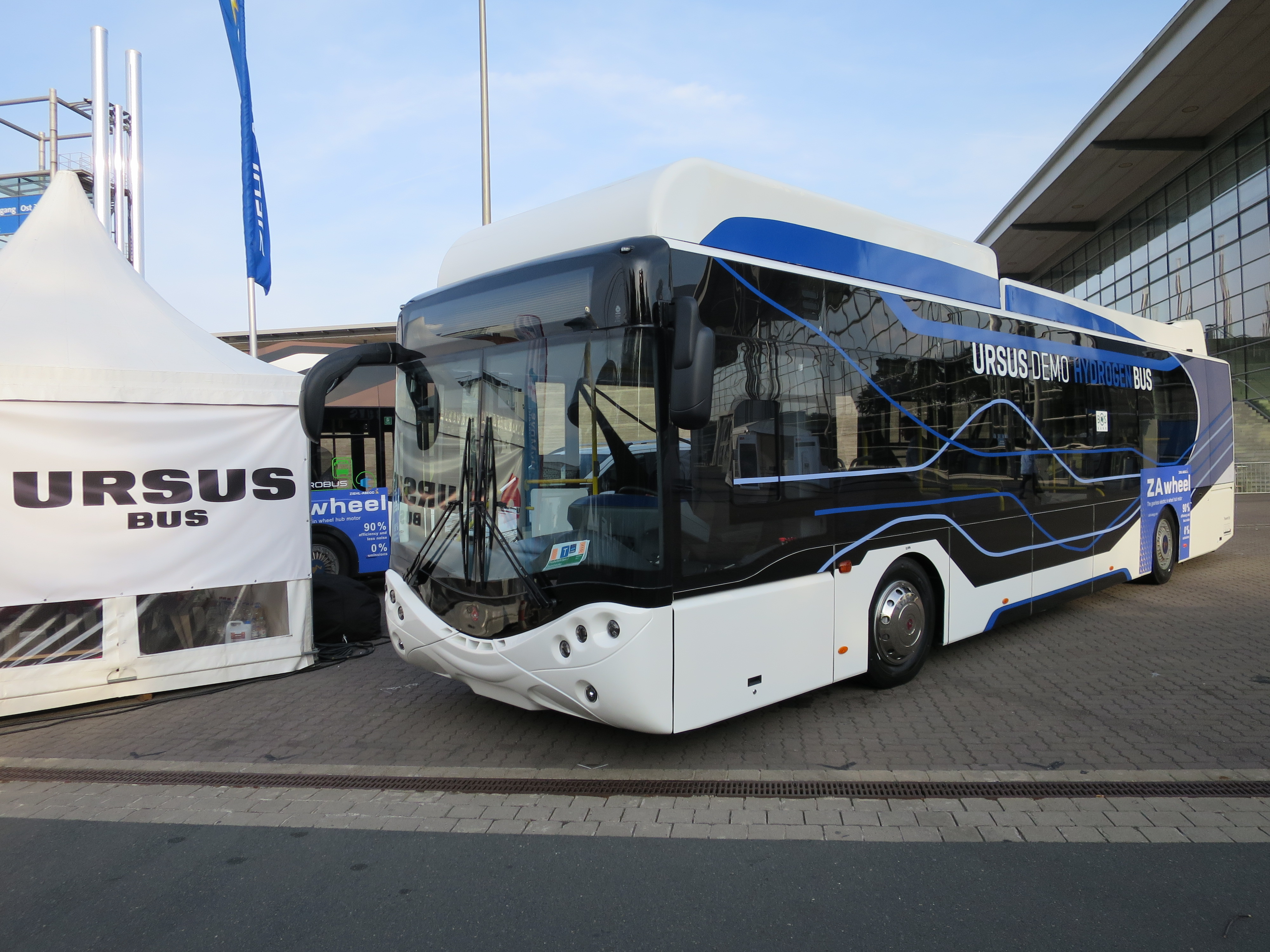 The making of this document was supported by Wikimedia Polska Association, within Wikigrant no. WG 2016-35. URSUS Hydrogen Bus